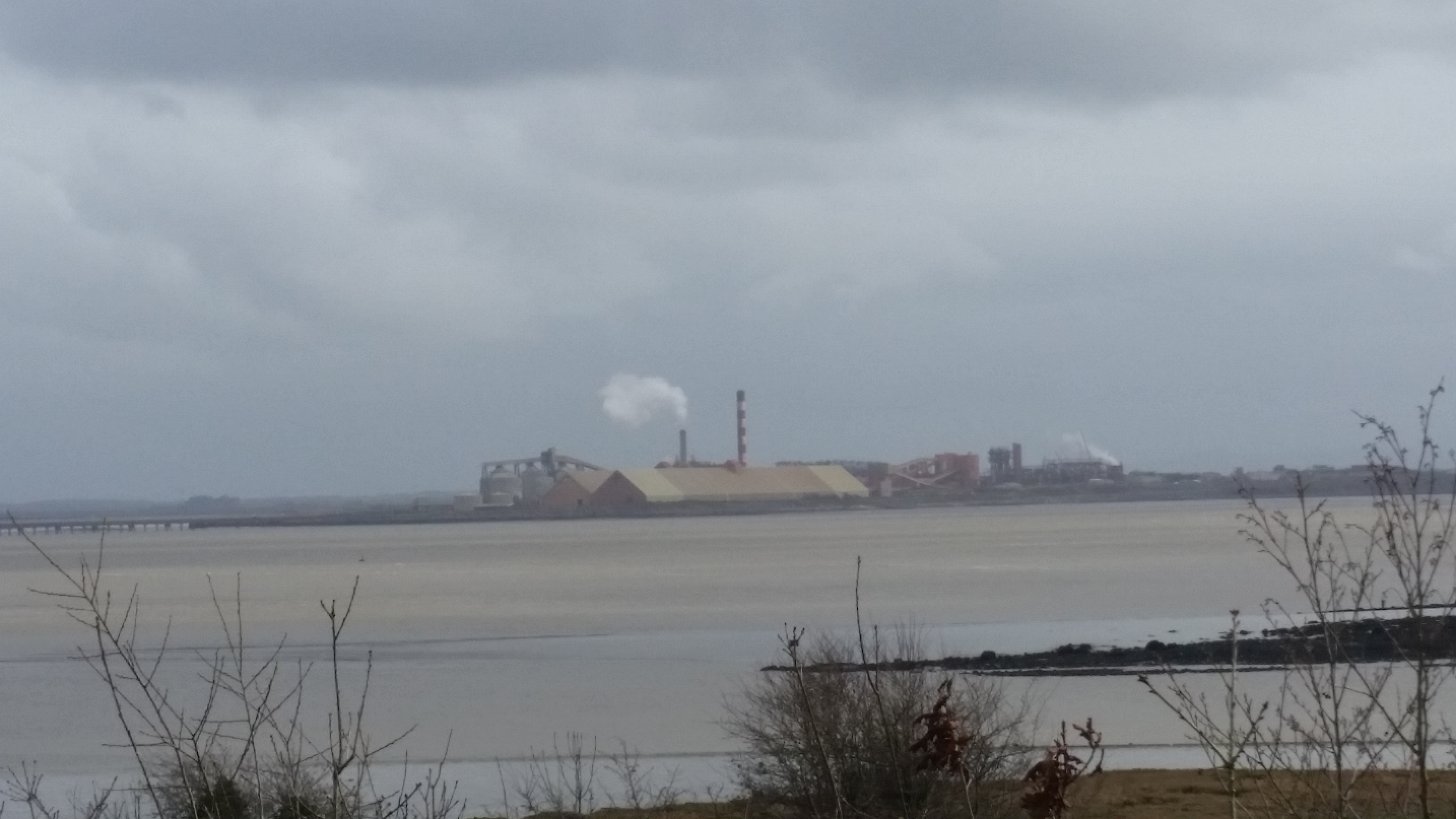 Rusal Aughinish Alumina Plant as viewed across the estuary from Kildysart Pier